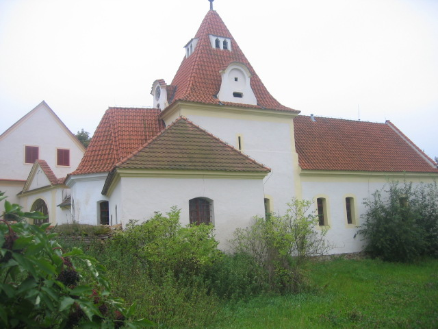 Gothic church of St. Catherine in the village of Varvažov in South Bohemian Region (Czech Republic)